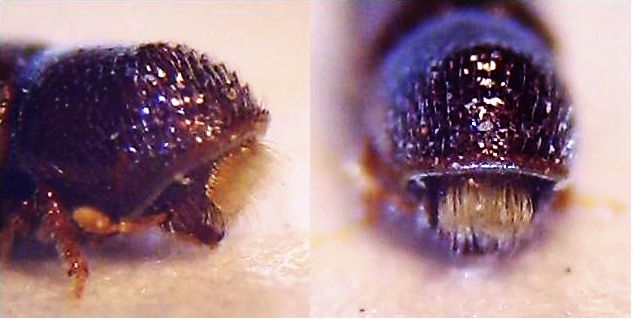 Pityophthorus_pityographus_female_Head.